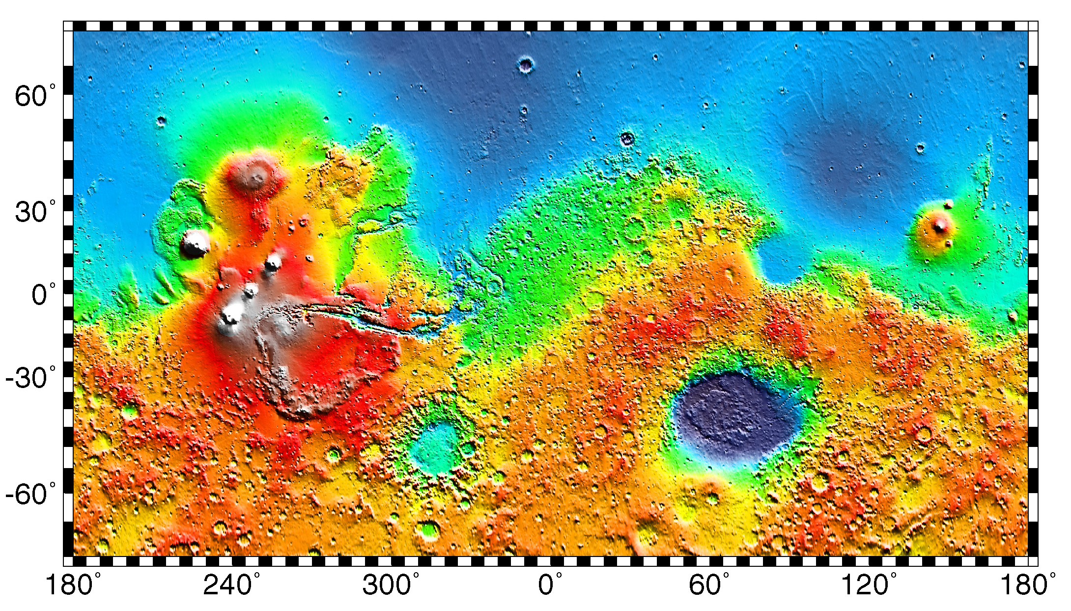 PIA02031: Maps of Mars Global Topography - Maps of Mars' global topography. The projections are Mercator to 70° latitude and stereographic at the poles with the south pole at left and north pole at right. Note the elevation difference between the northern and southern hemispheres. The Tharsis volcano-tectonic province is centered near the equator in the longitude range 220° E to 300° E and contains the vast east-west trending Valles Marineris canyon system and several major volcanic shields including Olympus Mons (18° N, 225° E), Alba Patera (42° N, 252° E), Ascraeus Mons (12° N, 248° E), Pavonis Mons (0°, 247° E), and Arsia Mons (9° S, 239° E). Regions and structures discussed in the text include Solis Planum (25° S, 270° E), Lunae Planum (10° N, 290° E), and Claritas Fossae (30° S, 255° E). Major impact basins include Hellas (45° S, 70° E), Argyre (50° S, 320° E), Isidis (12° N, 88° E), and Utopia (45° N, 110° E). This analysis uses an areocentric coordinate convention with east longitude positive. Color coding on this map of the planet Mars indicates relative elevations based on data from the Mars Orbiter Laser Altimeter on NASA's Mars Global Surveyor. Red is higher elevation (up to +8 km and higher); yellow is 0 km; blue is lower elevation (down to -8 km). In longitude, the map extends from 70 degrees (north) to minus 70 degrees (south). The east-west axis is labeled at the bottom in degrees of east longitude, with the zero meridian at the center. Data was produced by the Mars Global Surveyor's MOLA instrument Producer ID: P50409 MRPS95009